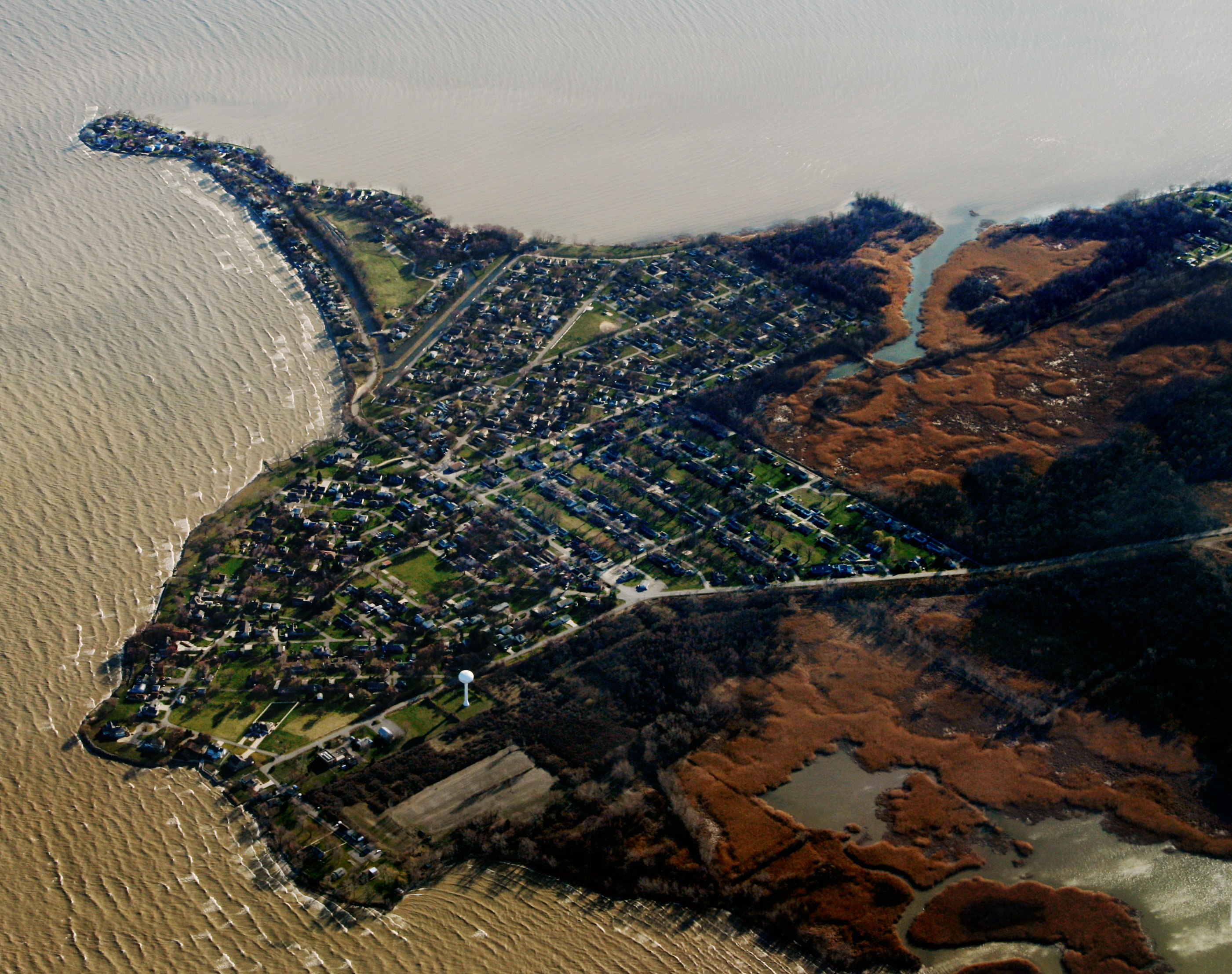 Stony Point, Michigan on Lake Erie, looking southwest.